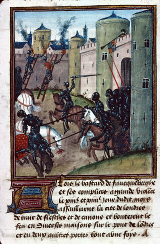 As Thomas de Fauconbergh beseiges London (setting fire), he is attacked by Edward IV and his troops